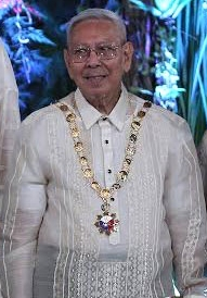 Portrait of Ramon Santos